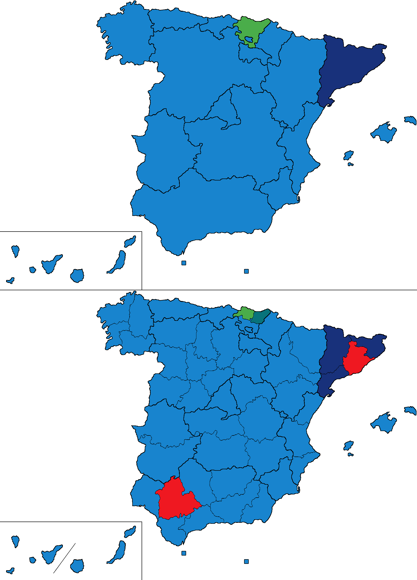 Most voted party in the 2011 Spanish Congress of Deputies election by autonomous communities and provinces.